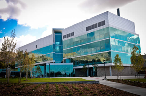 University of Utah's Srenson Molecular biotechnology Building